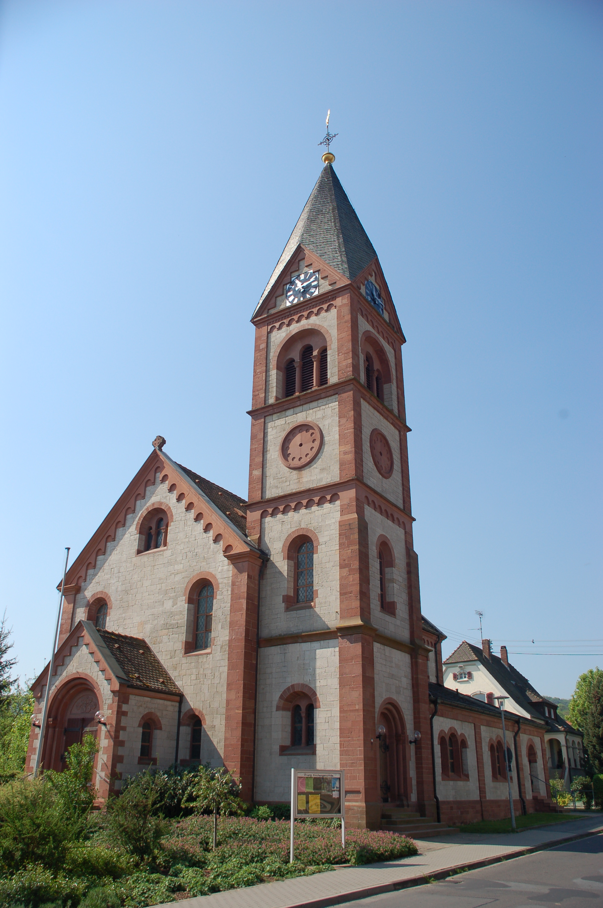 Evangelic church in Lauda